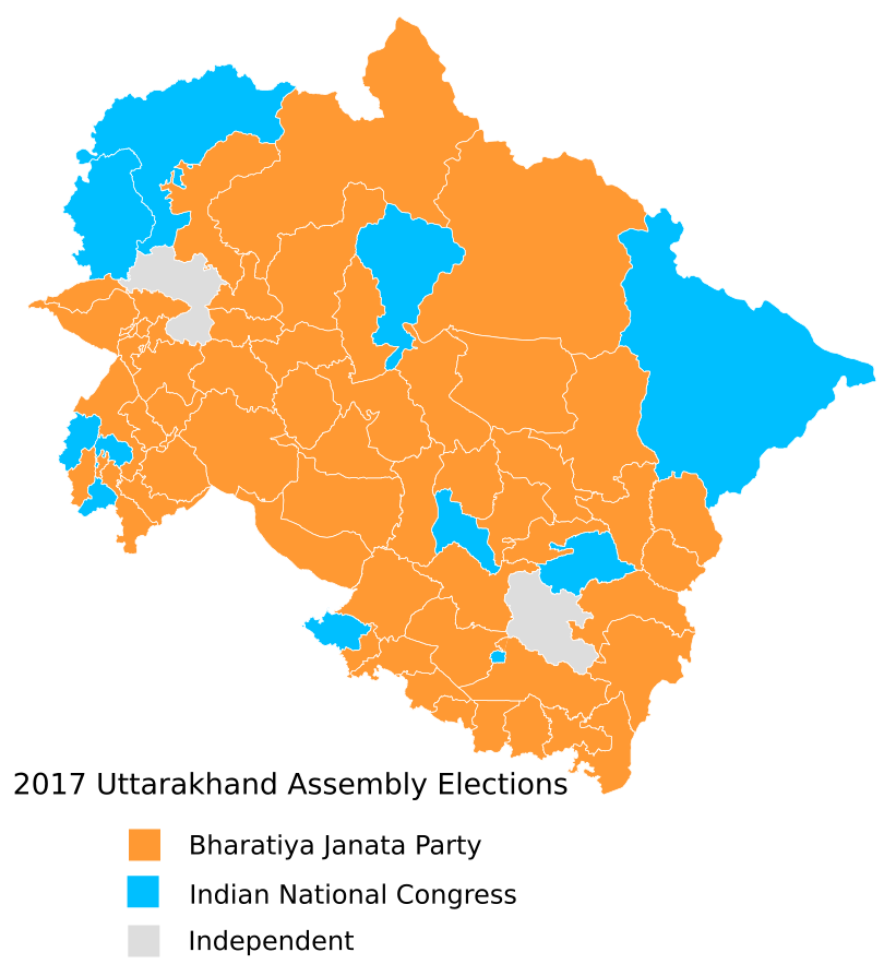 Results of the 2017 Uttarakhand Legislative Assembly elections.